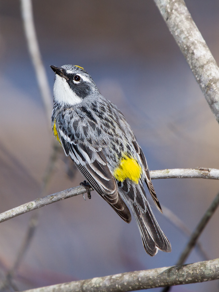 A Myrtle Warbler (Yellow-rumped Warbler) Setophaga coronata in Portland, Maine.